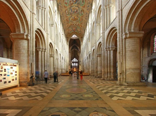 Ely Cathedral - the nave, looking east